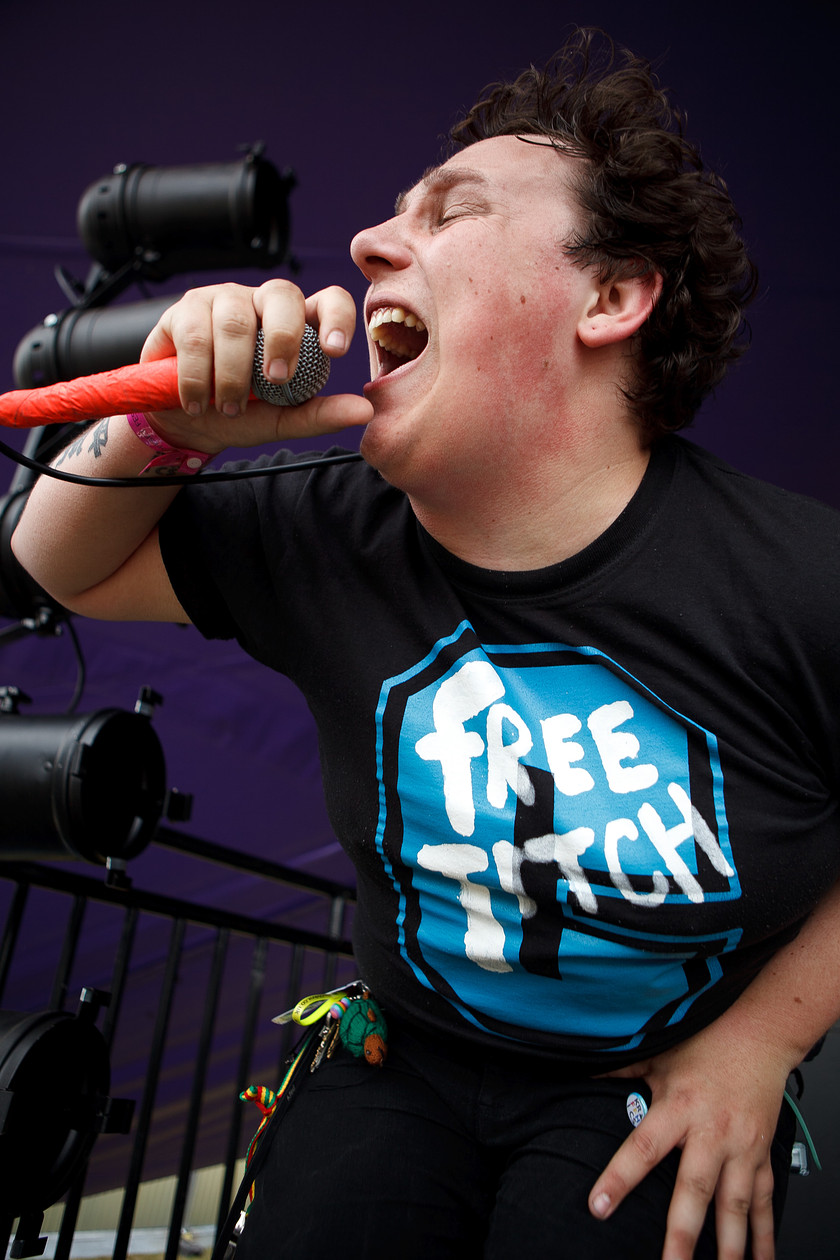 offset